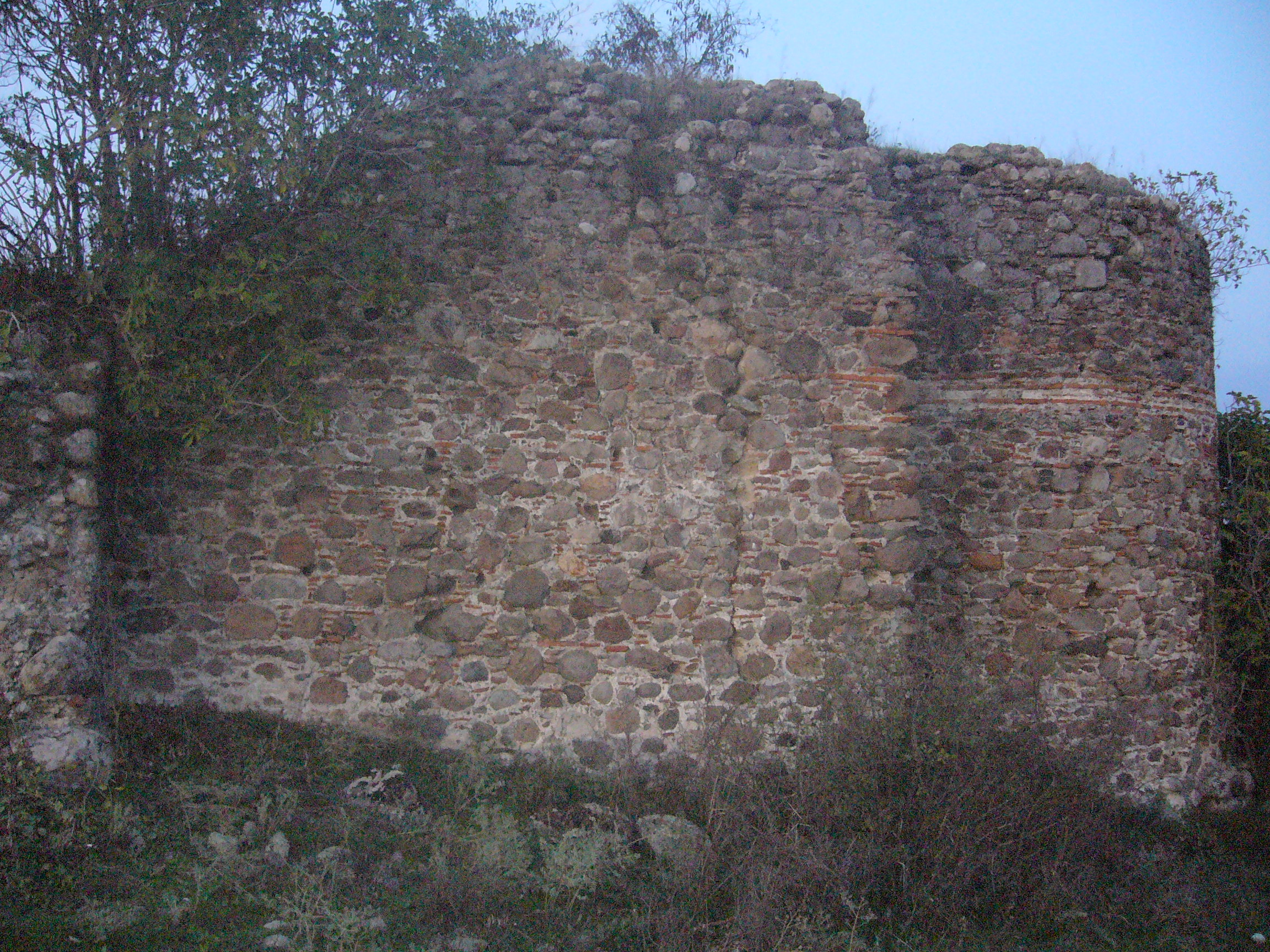 Castle of Moglena, Pella prefecture, Greece.